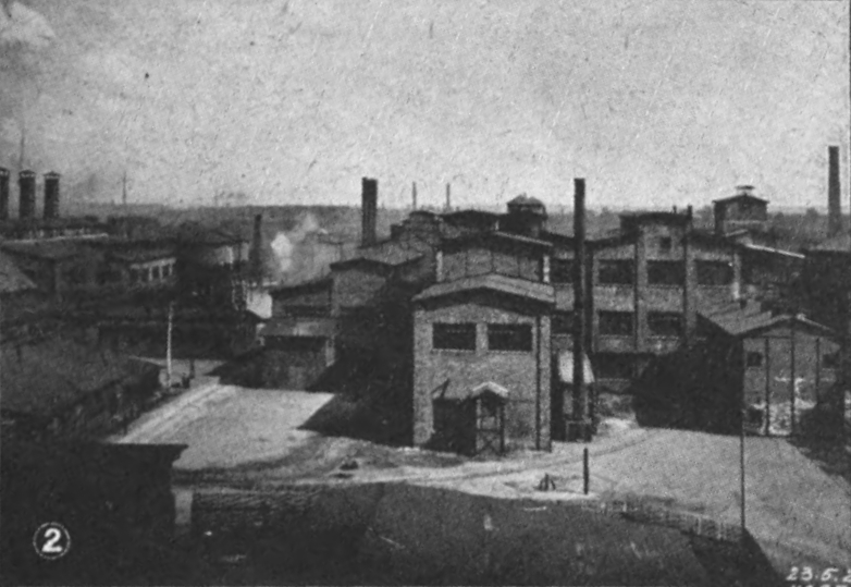 Electrolytic plants of the Bernhardi zinc smelter in Roździeń (later Katowice).